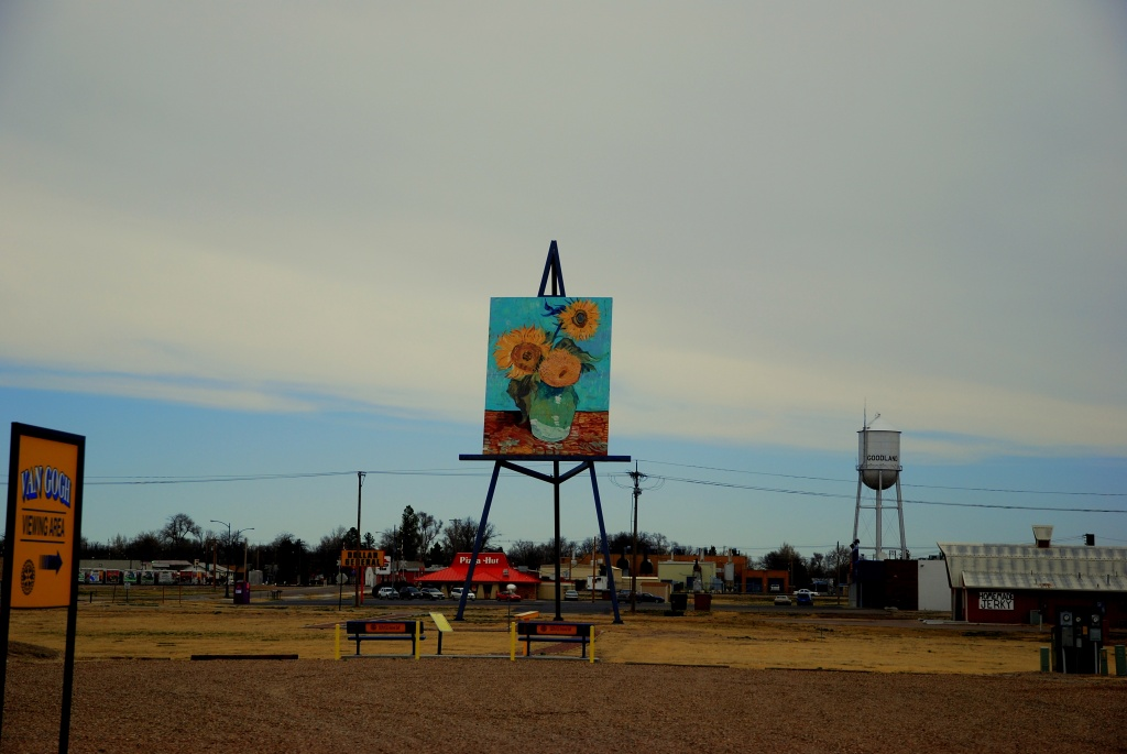 The "Sunflowers" Painting of Van Gogh in Goodland, KS